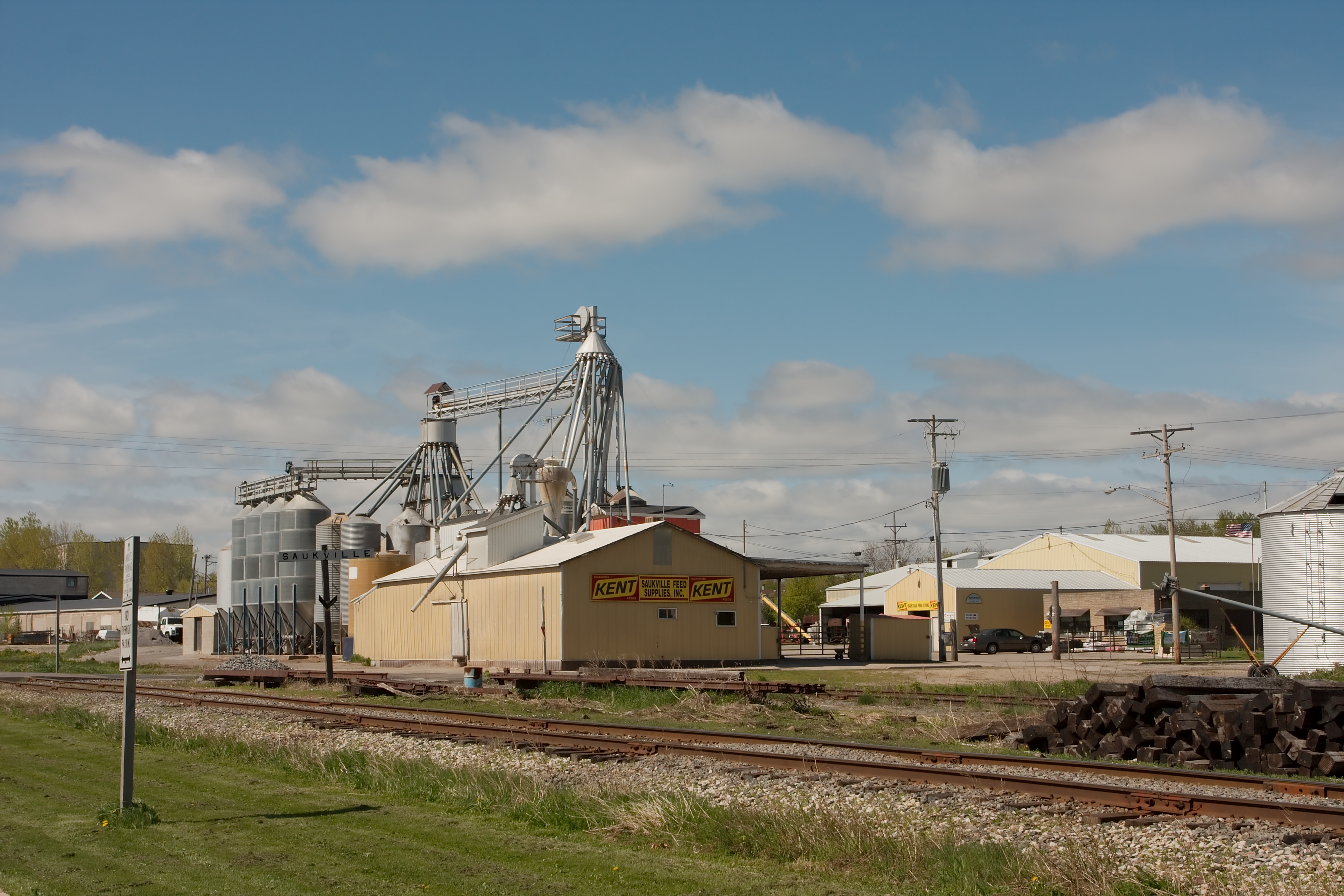 Saukville, Wisconsin